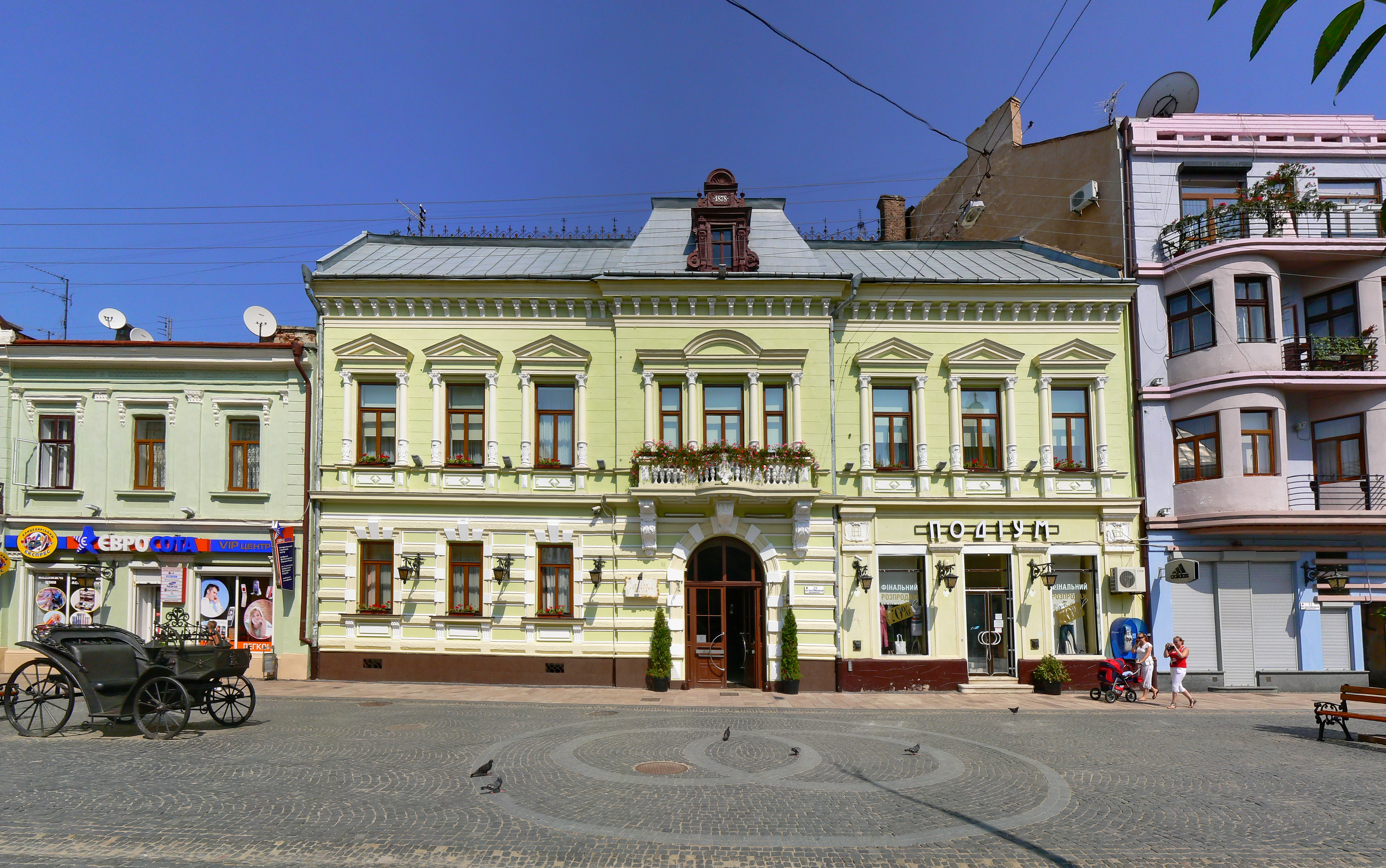 Кобилянської, 29